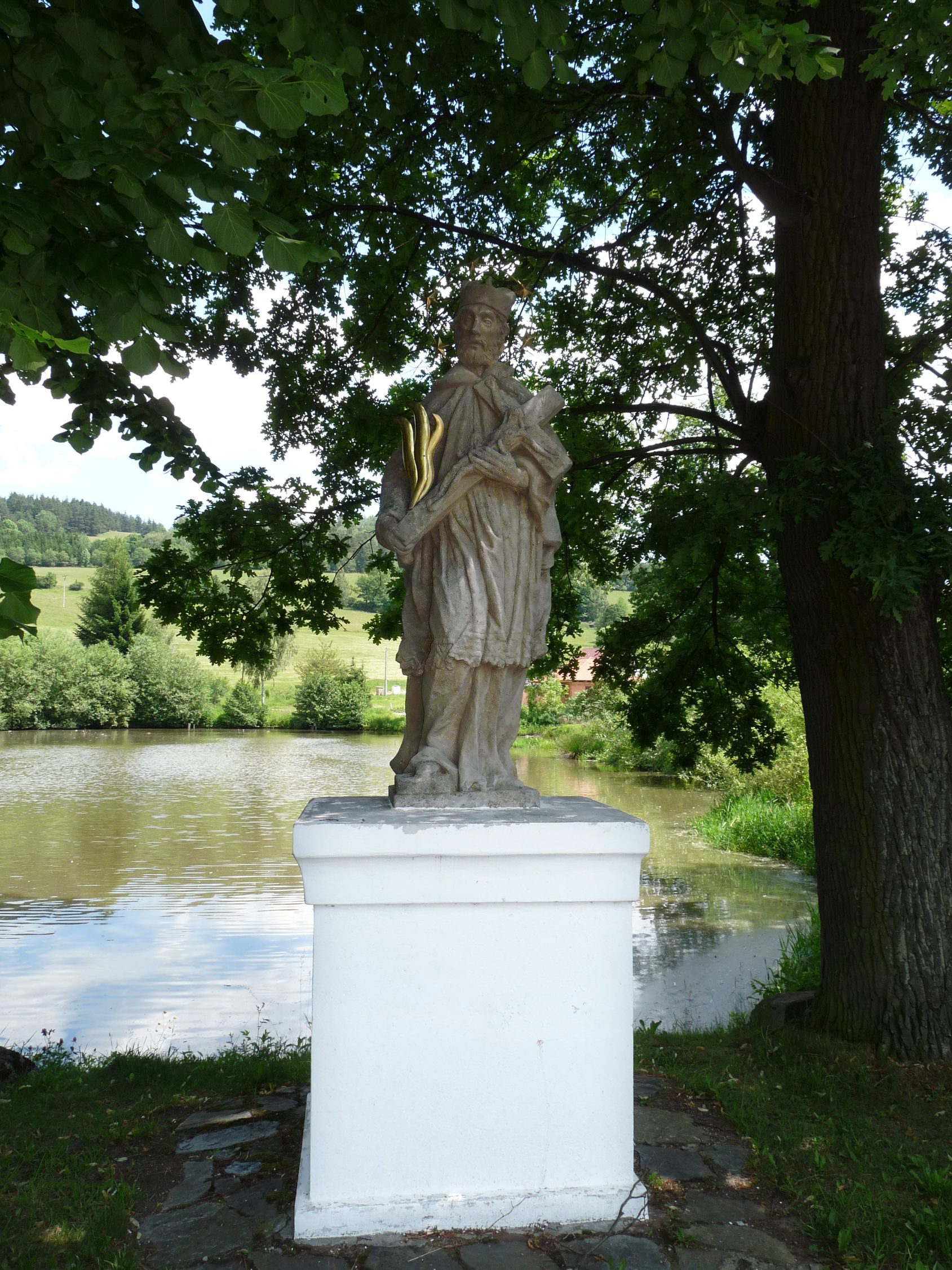 Statue of Saint John of Nepomuk in the municipality of Dlouhá Ves, Klatovy District, Plzeň Region, Czech Republic.